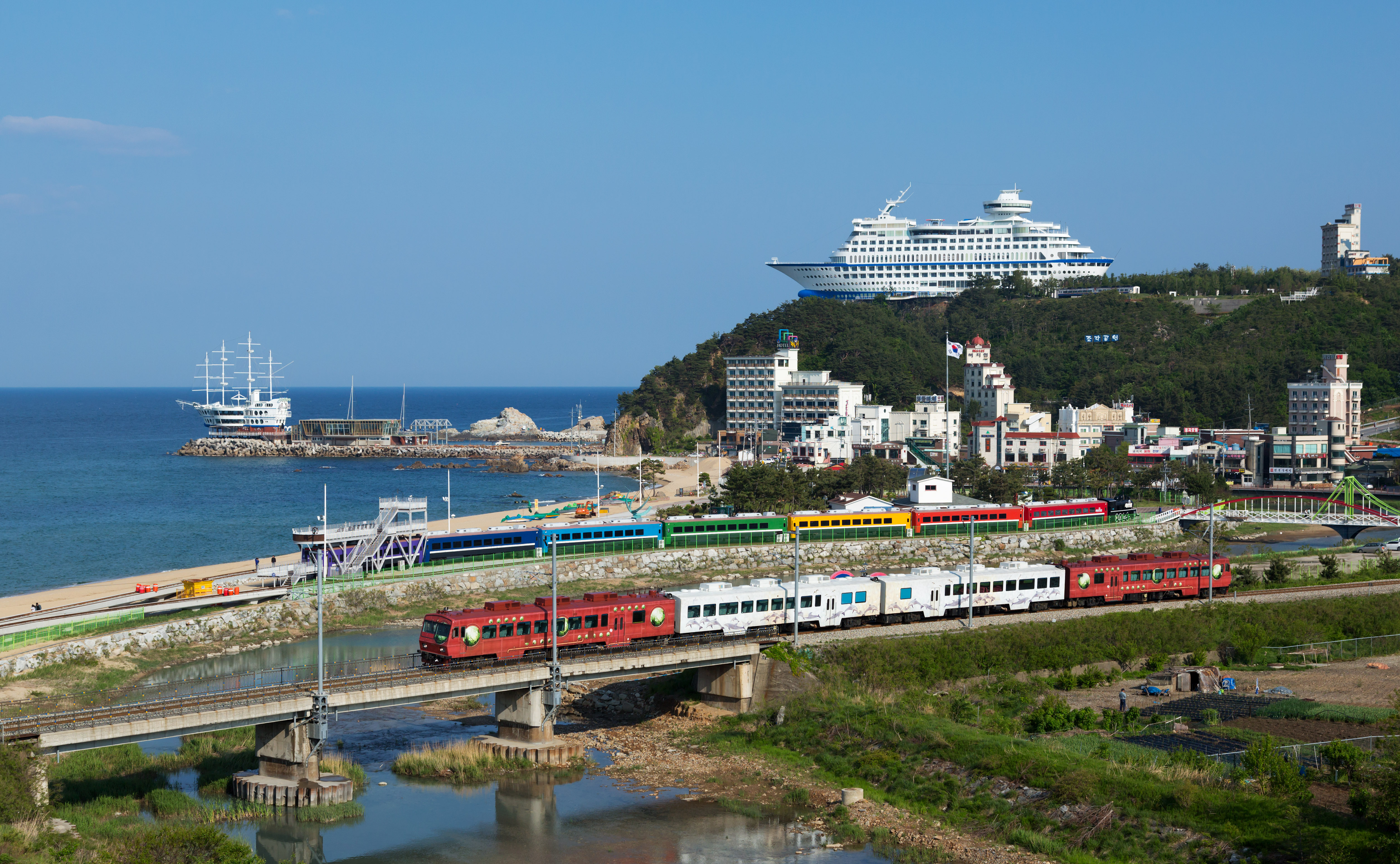 Korails "Seaside Train" just before arriving at Jeongdongjin, South Korea. The train is a Class 9000 DMU and features seats rotated by 90° for a better view onto the sea.